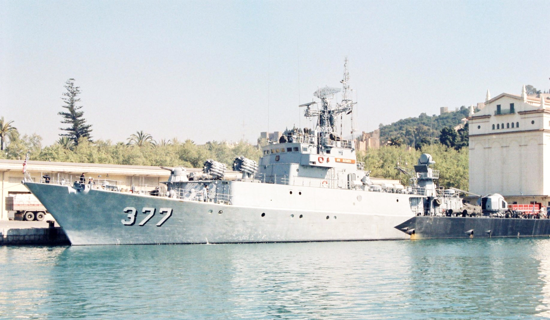 Indonesian corvette Sutanto, former DDR Wismar, in Málaga, 27th March 1995.